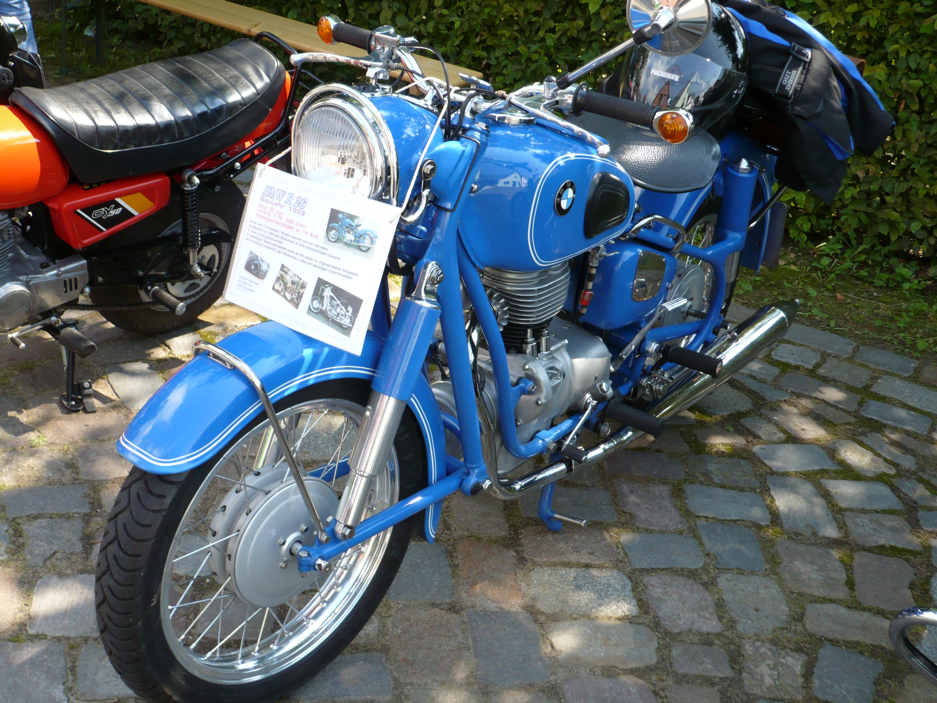 Historic Motorcycle BMW R 26, 1959 12 August 2007 We came to the village of Borsfleth, which was celebrating it's 700th anniversary. They had a show of historic bikes and motorcycles. This lovely blue BMW is the BMW R 26 from 1959. It's top speed is 118 km/h. (73 mph)